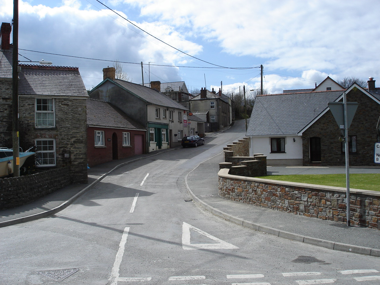 Picture of Trelech village centre